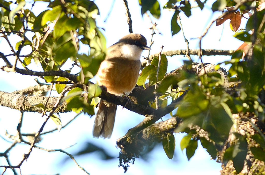 White-throated laughingthrush at Pangot, Uttarkhand, India